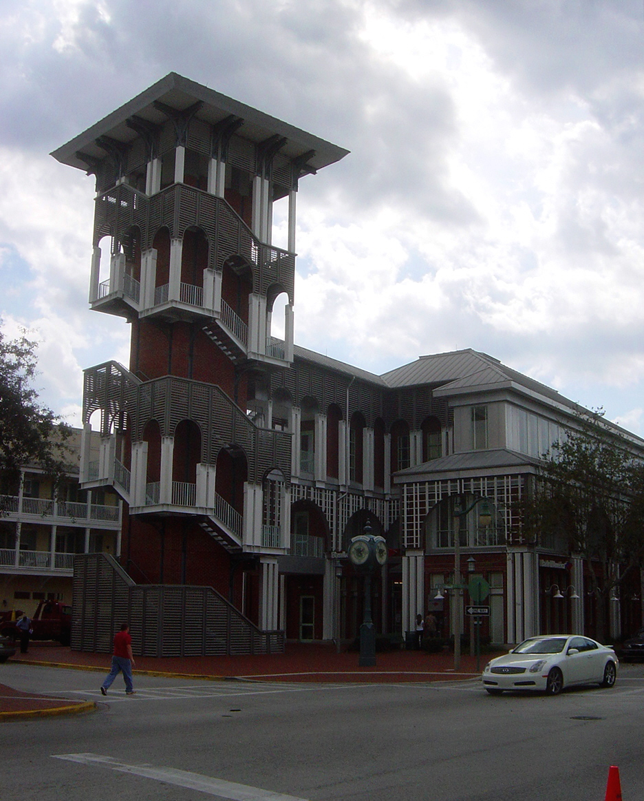 The Bank of America branch, downtown Celebration, Florida: the city designed and planned by The Walt Disney Company. Photo taken by Bobak Ha'Eri. February 23, 2006. Please observe license and properly cite in use outside Wikipedia.